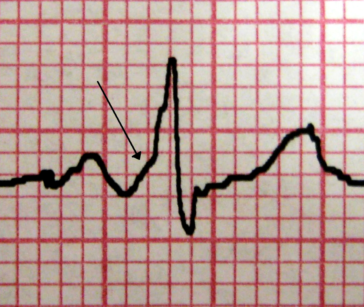 A characteristic delta wave seen in a patient with WPW. Note short PR interval.